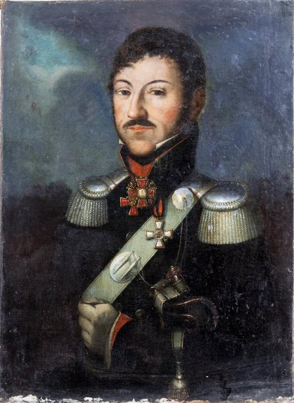 Poradovskiy Felix Osipovich